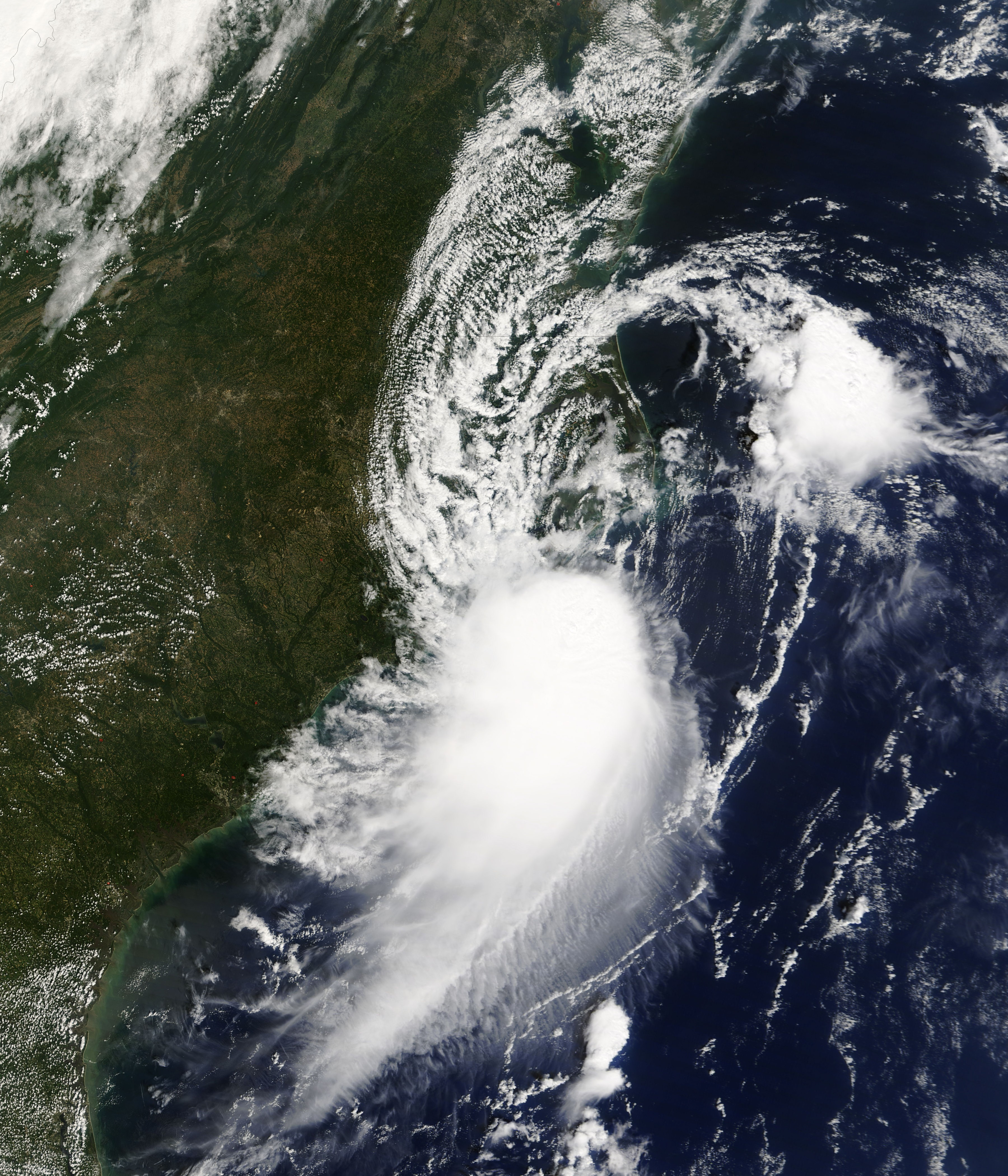 Tropical Storm Gabrielle making landfall at 1625 UTC, as seen by the MODIS instrument aboard NASA's Terra satellite.